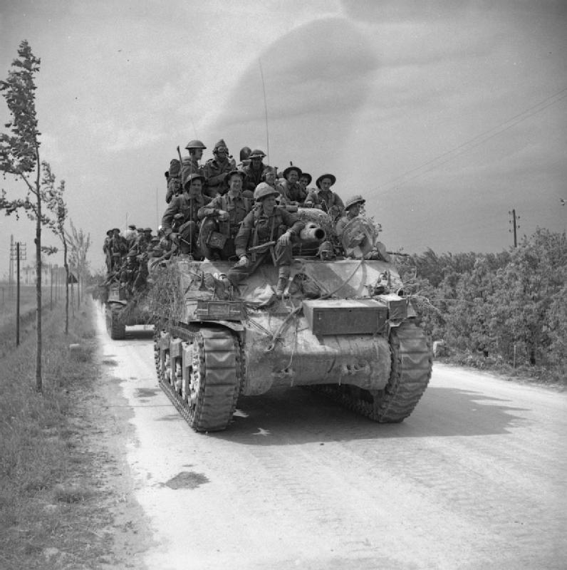 The British Army in Italy 1945 Men of the 2nd Lancashire Fusiliers are carried forward on Sherman tanks near Ferrara, 22 April 1945.